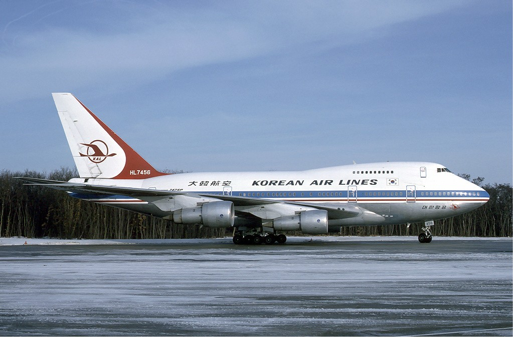 A Boeing 747SP of Korean Air Lines at Basle Airport